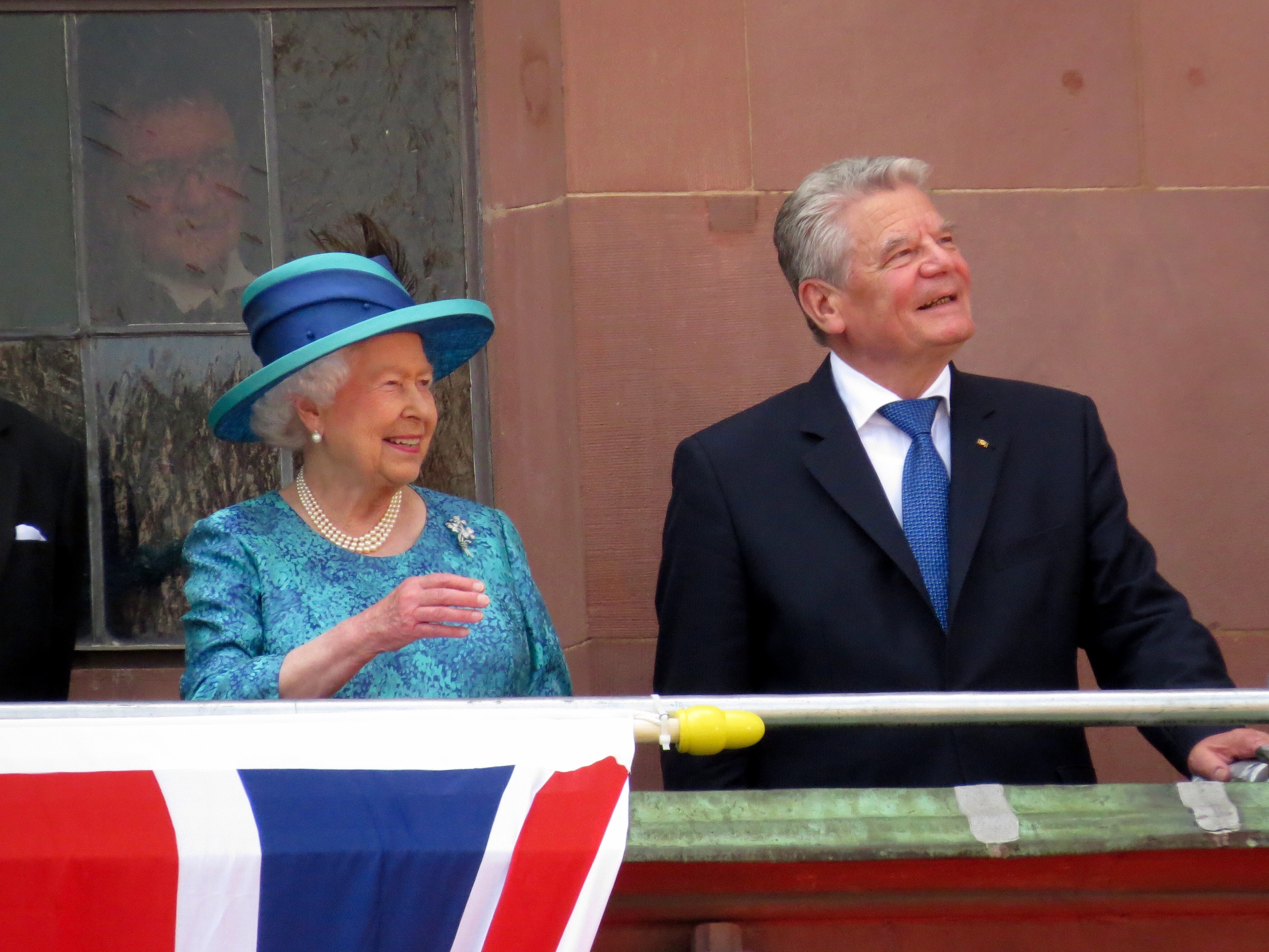 25.Jun.2015 Queen Elizabeth II. and Prince Philip's visit to Frankfurt